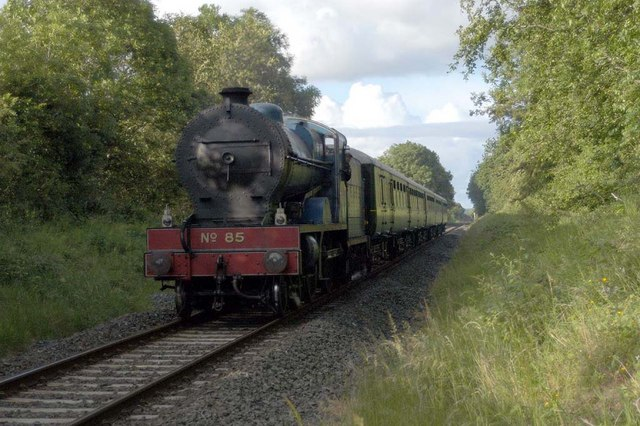 GNR Class V 4-4-0 steam locomotive 85 Merlin on an RPSI excursion train approaching Ballymartin level crossing, Co. Down, Northern Ireland